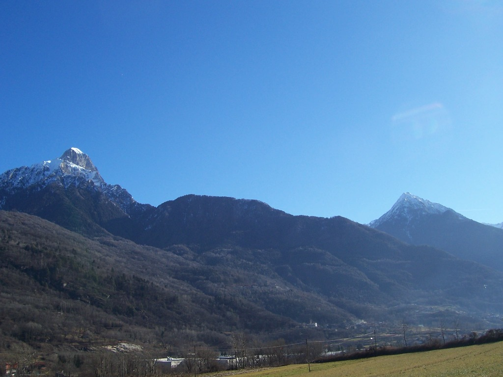 Pizzo Badile and Ferone Mount, Val Camonica, Italy